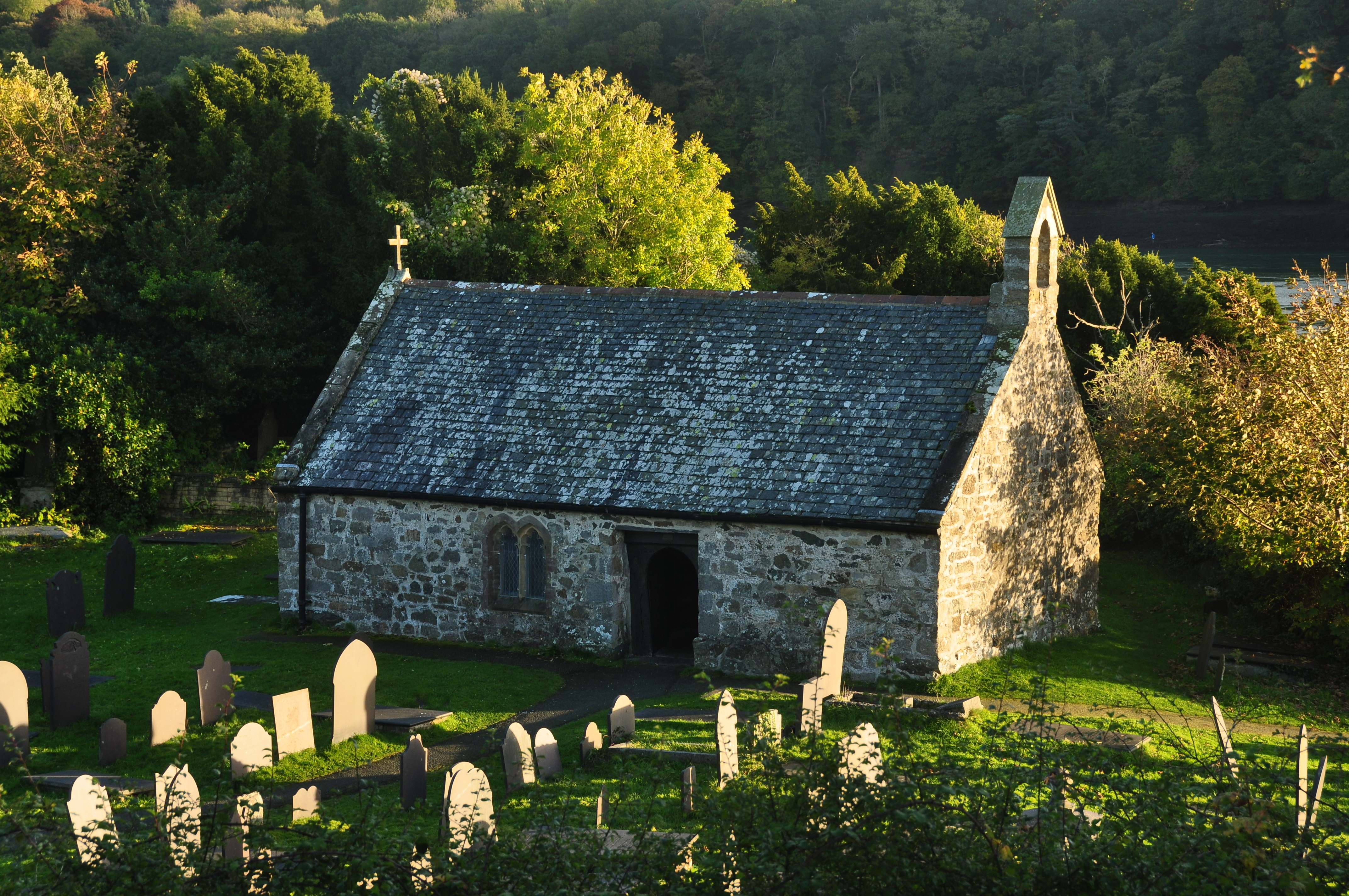 St Tysilio's Church, Menai Bridge